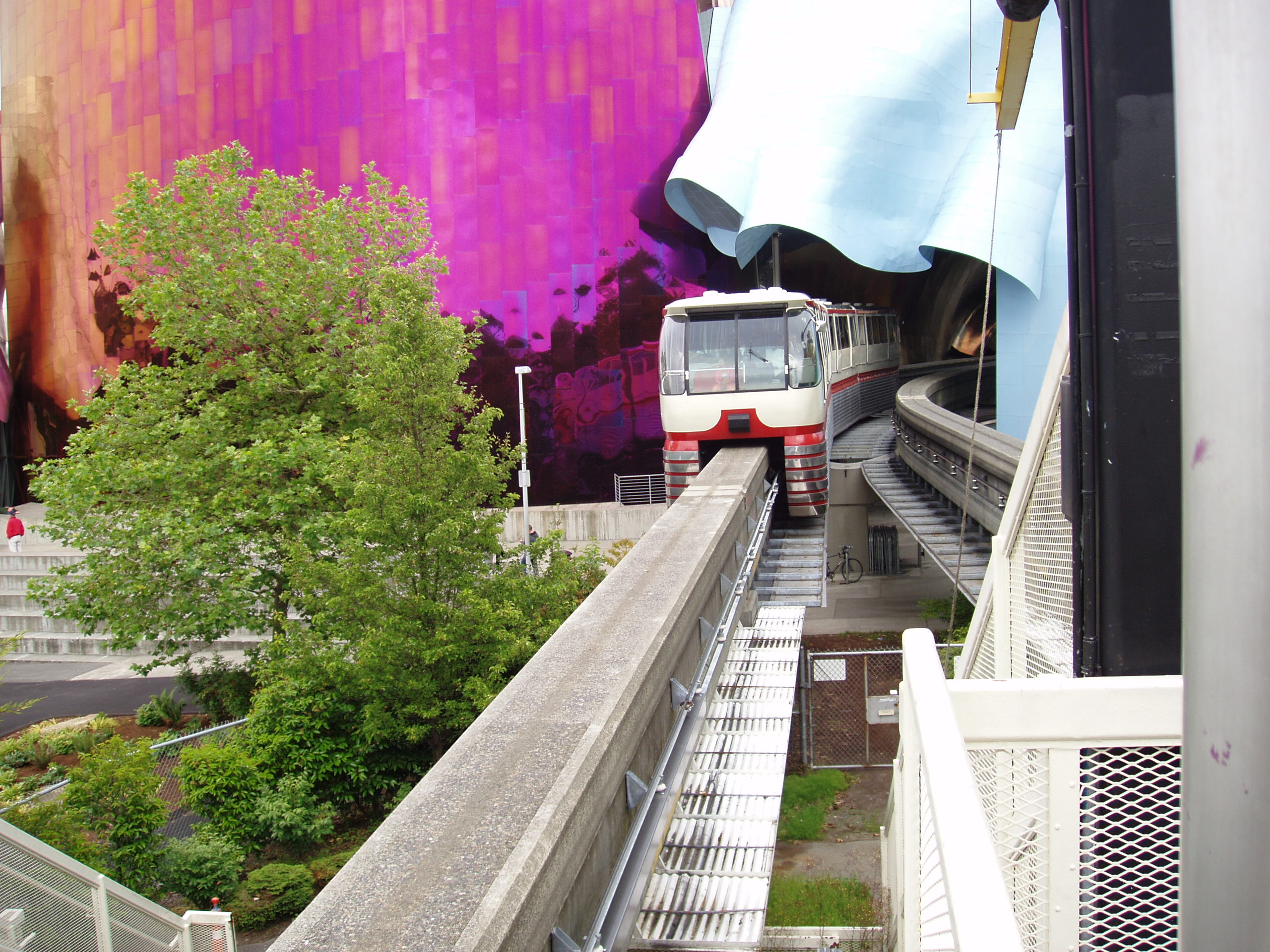 Seattle Monorail, Seattle Center station.